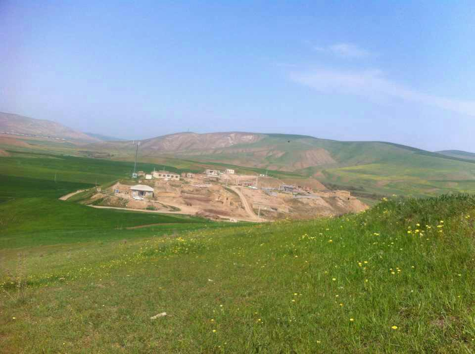 Beyg Baghlu village in Ardabil Province. Beybagli Panorama